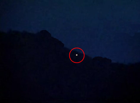 The Makarajyothi, famous light appears in Sabarimala temple, devotees believe it as a miracle.